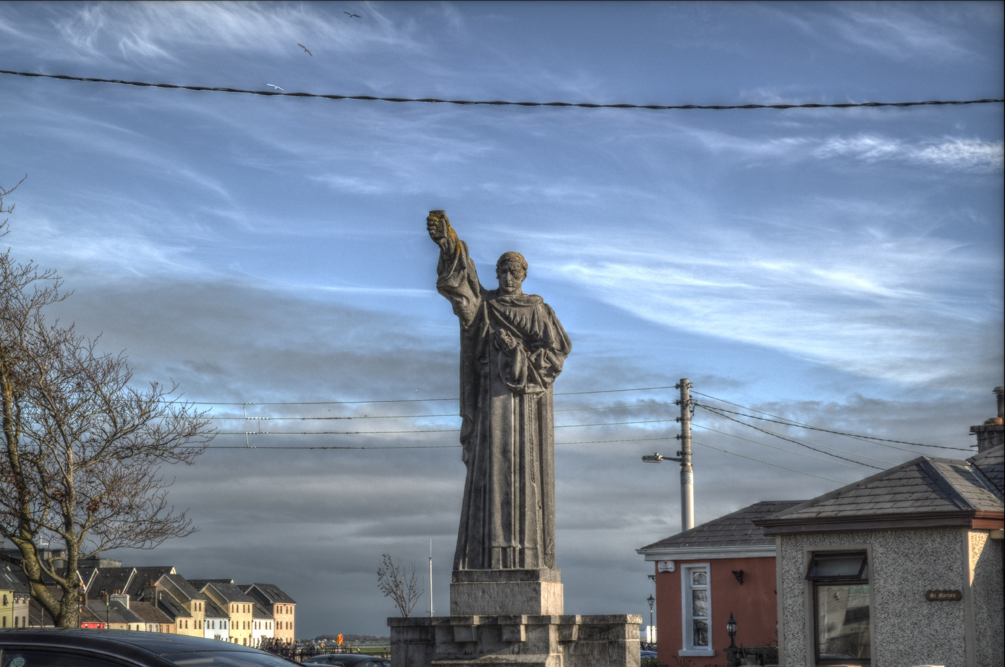 Statue of Thomas Nicholas Burke (1830-1882) by John F Kavanagh (1947) in Galway, Ireland. Camera: Nikon D5000 3 exposures: -2, 0, 2 EV Luminance HDR: Mantiuk'06